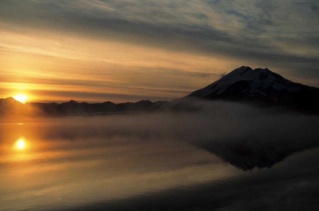 Mount Chiginagak, Alaska Peninsula National Wildlife Refuge